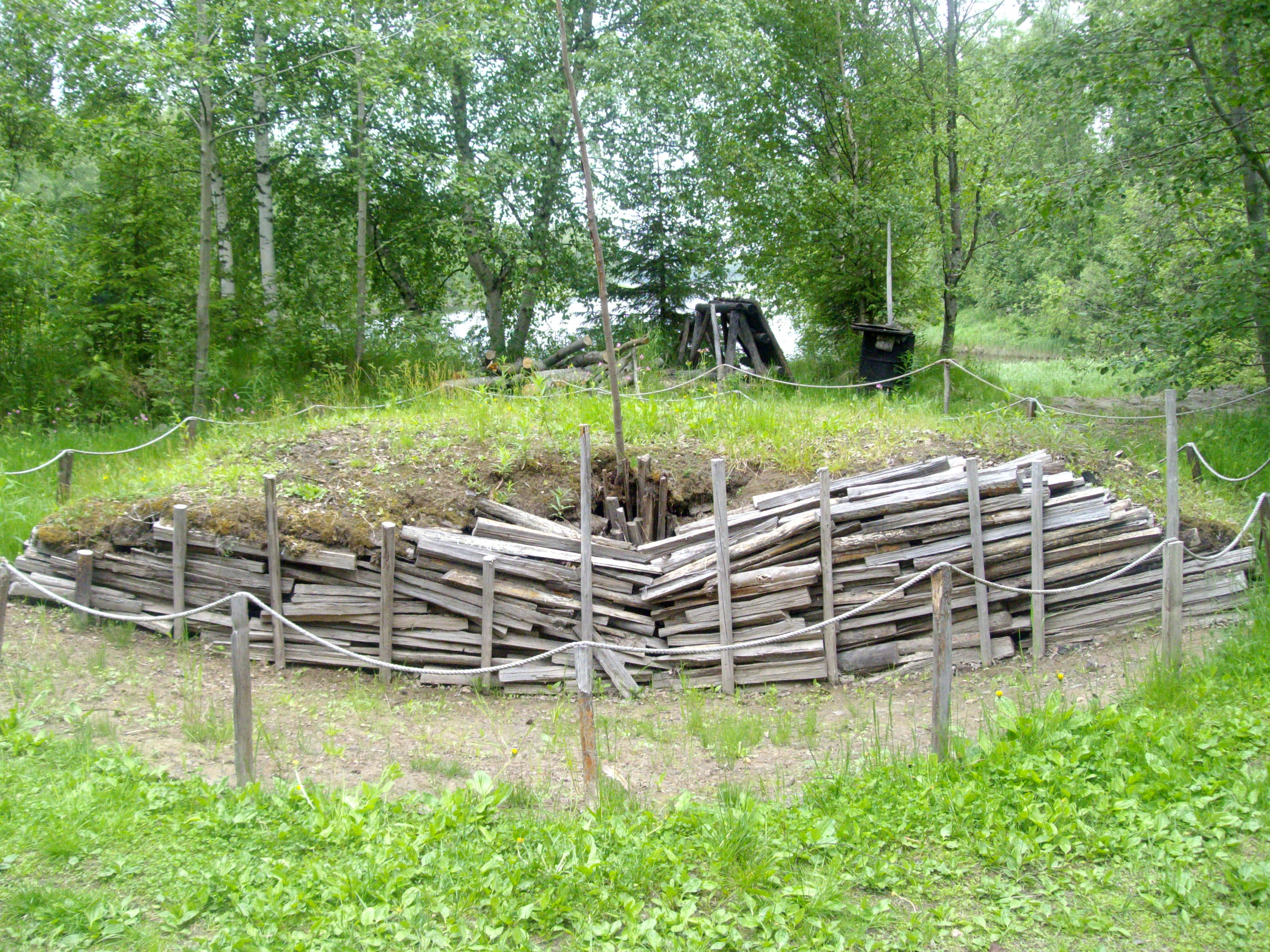 Tar-burning pit in Turkansaari, Oulu, Finland